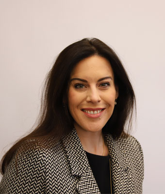 Irish Politician Jennifer Carroll MacNeill of Fine Gael, taken in 2020